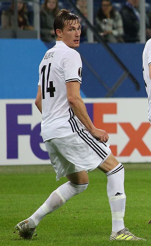 Johan Lædre Bjørdal with Rosenborg in an Europa League game against Zenit St. Petersburg in 2017.